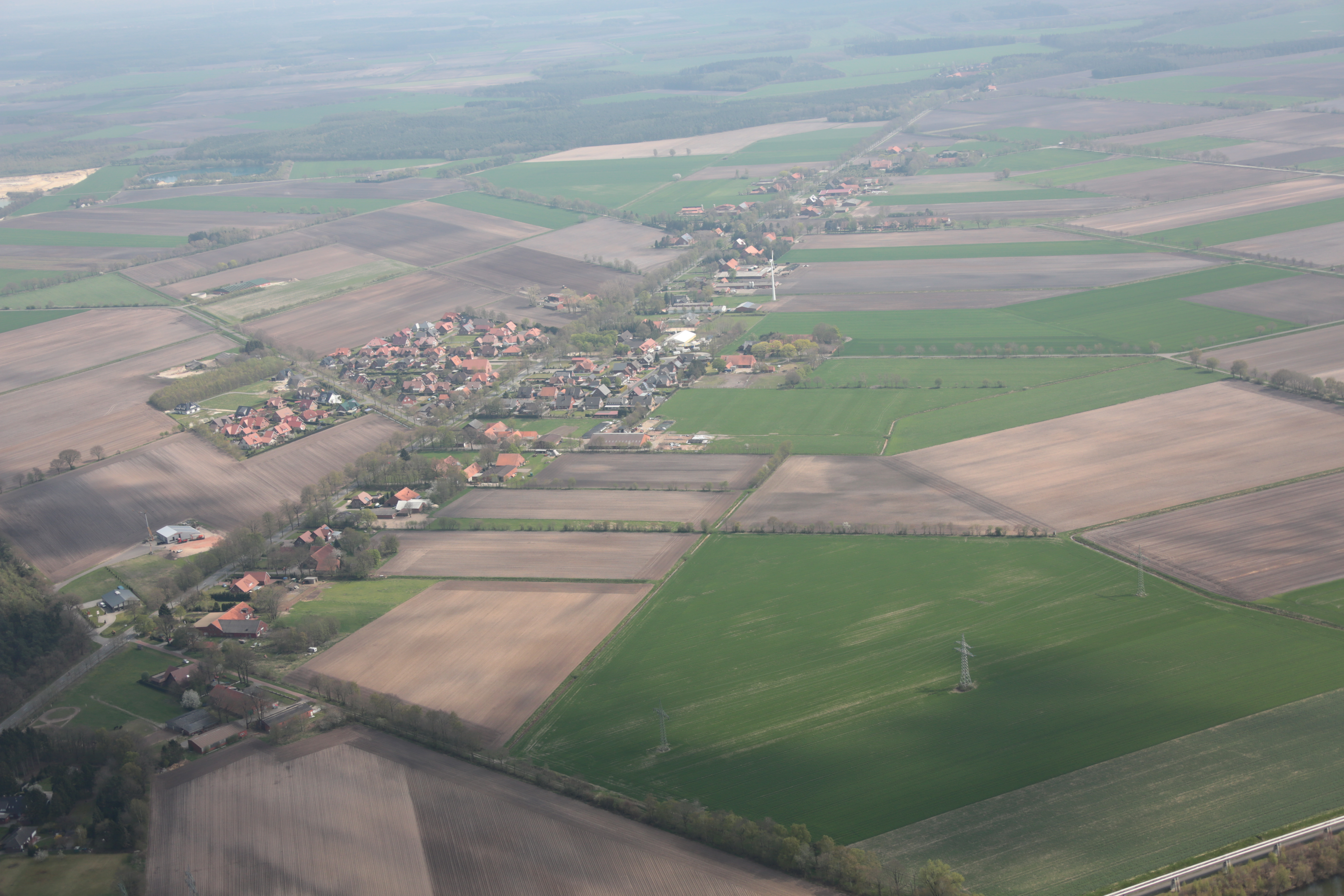 Fotoflug von Nordholz-Spieka nach Oldenburg und Papenburg This photo was taken by Alchemist-hp. If you use one of my photos, an email (account needed) or a message or direct to: my email account would be greatly appreciated. Please note the license terms. Other licensing terms can get discussed, too. This file is copyrighted and has been released under a license which is incompatible with Facebook's licensing terms. It is not permitted to upload this file to Facebook.